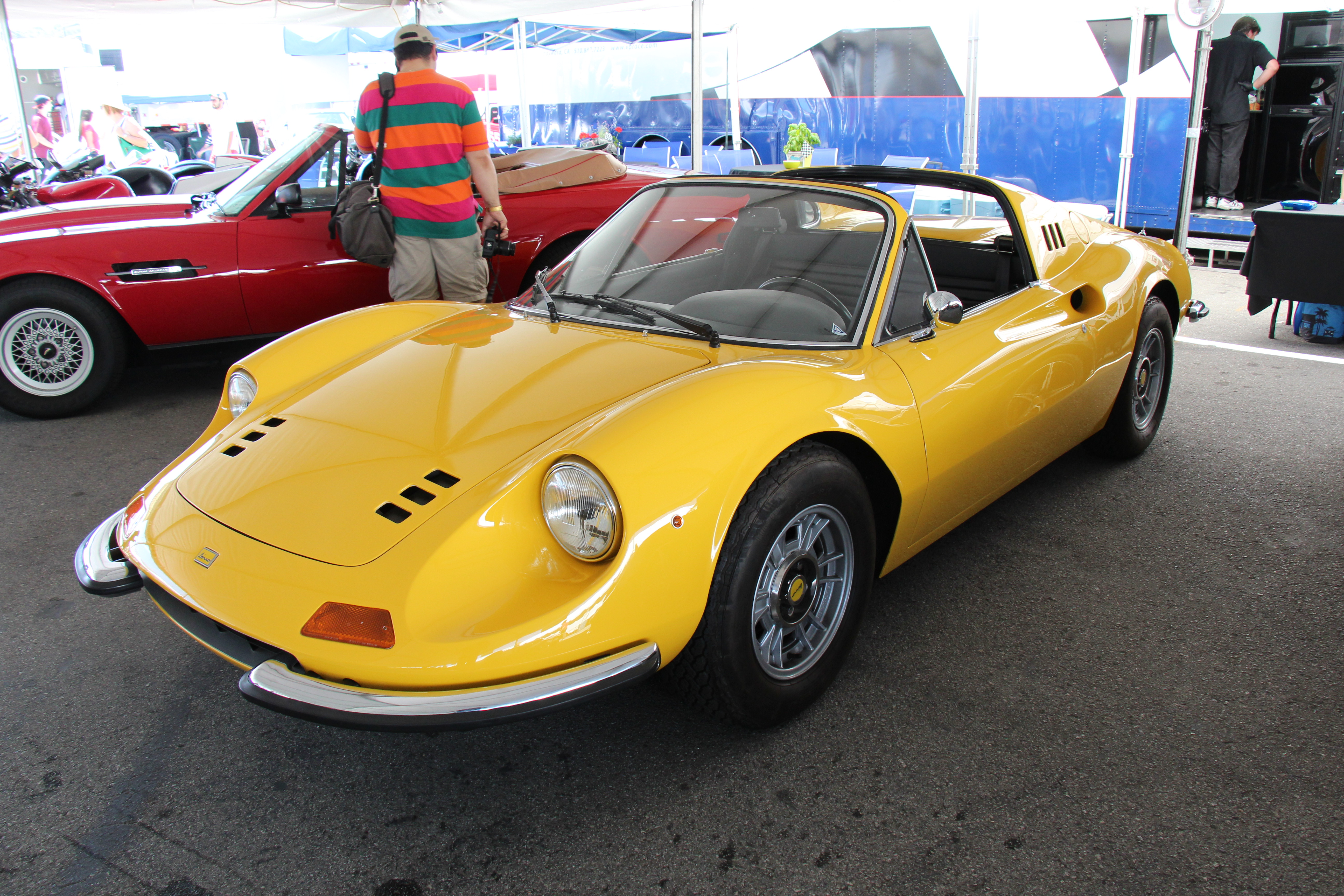 The Dino was a less expensive Ferrari, a Ferrari with less than 12 cylinders, it was built from 1968-76. In its early days, not even badged as a Ferrari. The first was the 1968-69 206 GT, it got a transverse-mounted 2.0 litre aluminium V6 engine. Then from 1969-74 was the 246 GT, it got the larger 2.4 litre V6, the body now made of steel instead of the 206s aluminium. Dinos were only fixed head coupes up to 1971, when the targa top GTS was introduced (this car). The last Dino, a new angular wedge shape, was the 308 GT4 2+2, made from 1973-76, it got a 2927cc V8